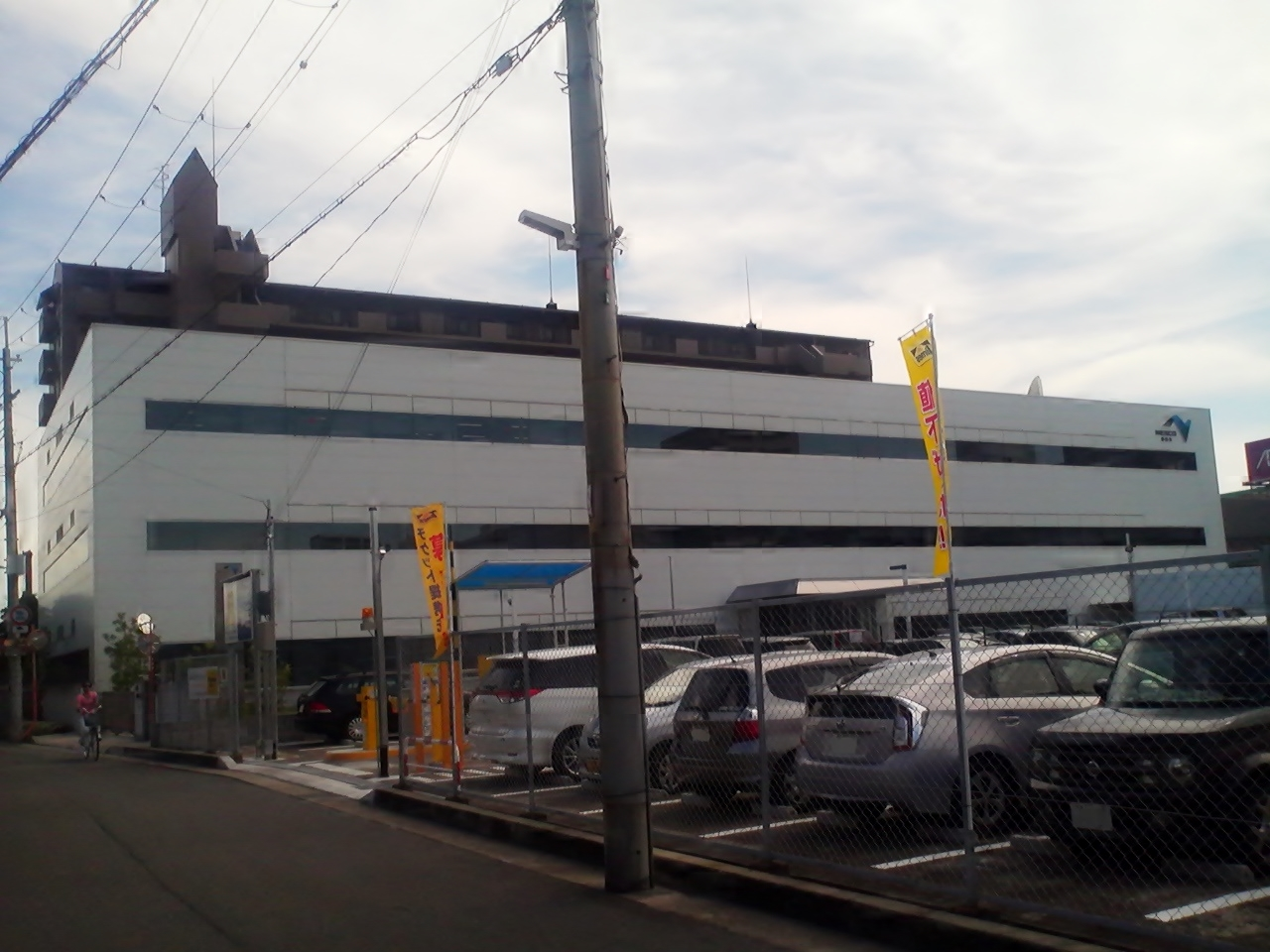 Kansai Branch, West Nippon Expressway Company Limited.